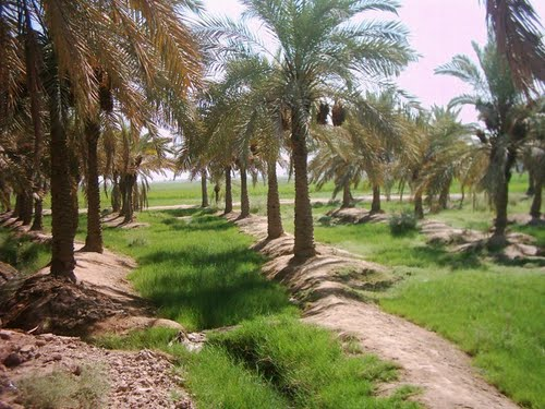 Karmat Beni Sa'eed